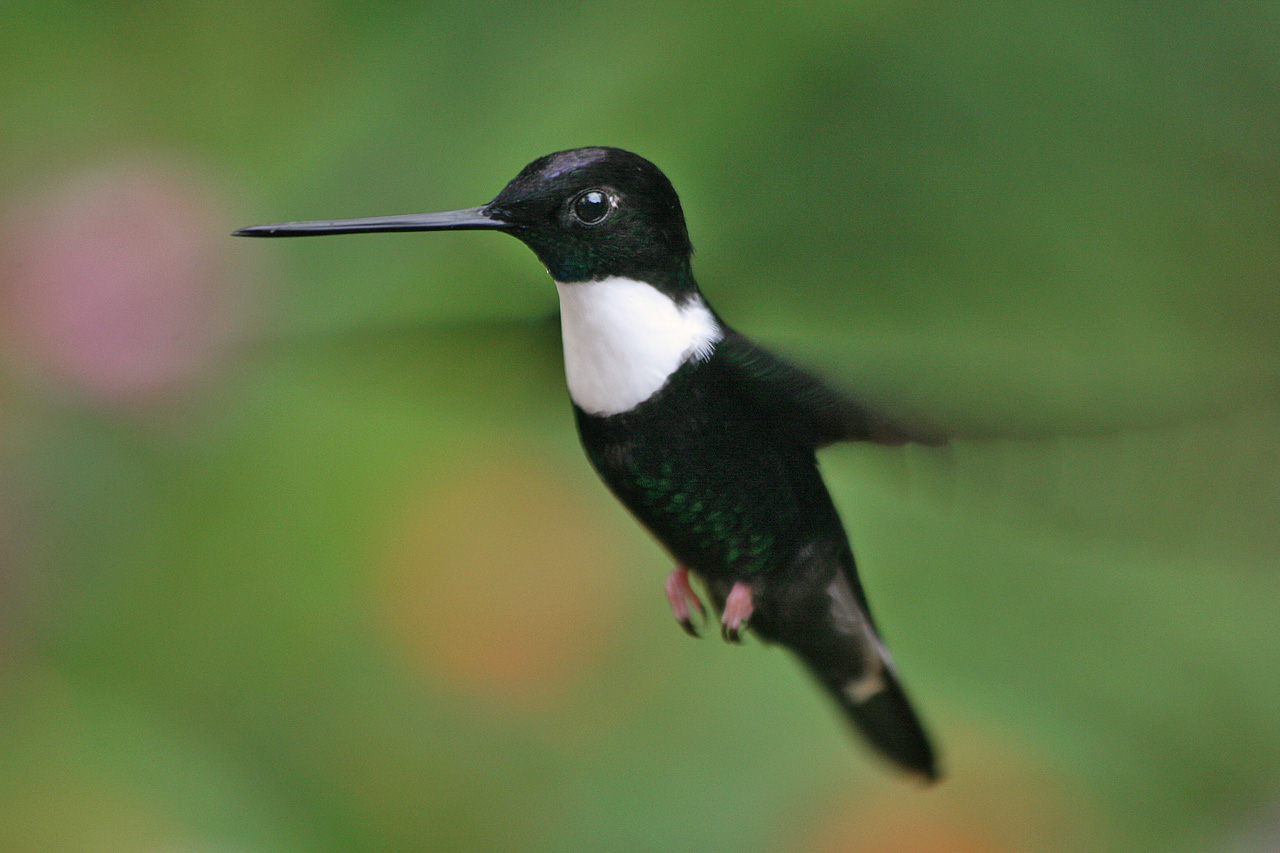 Collared Inca hovering (Coeligena torquata)